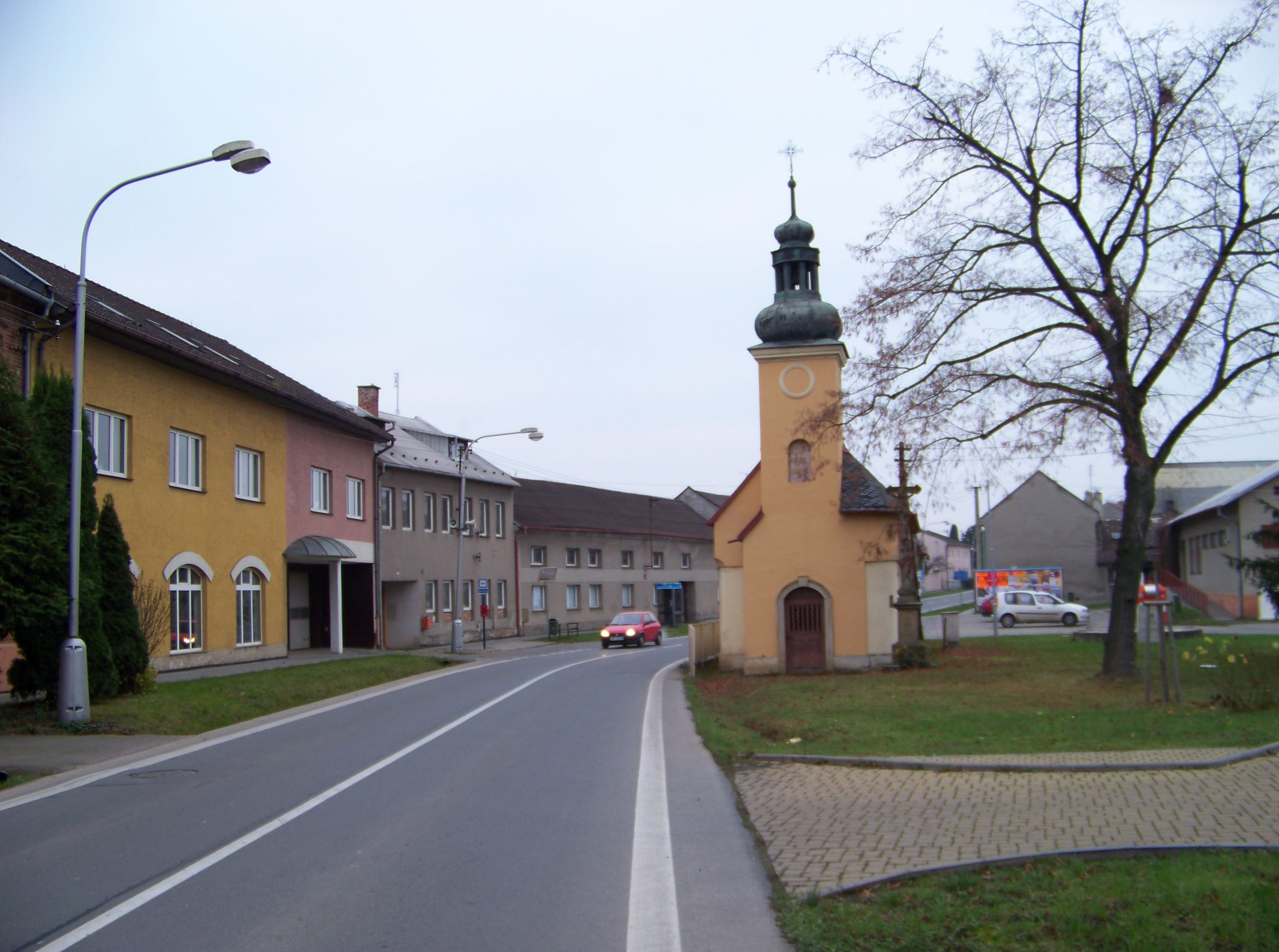 Olomouc-Nedvězí, Olomouc District, Olomouc Region, Czech Republic. Jilemnického street, chapel of the Holy Trinity.